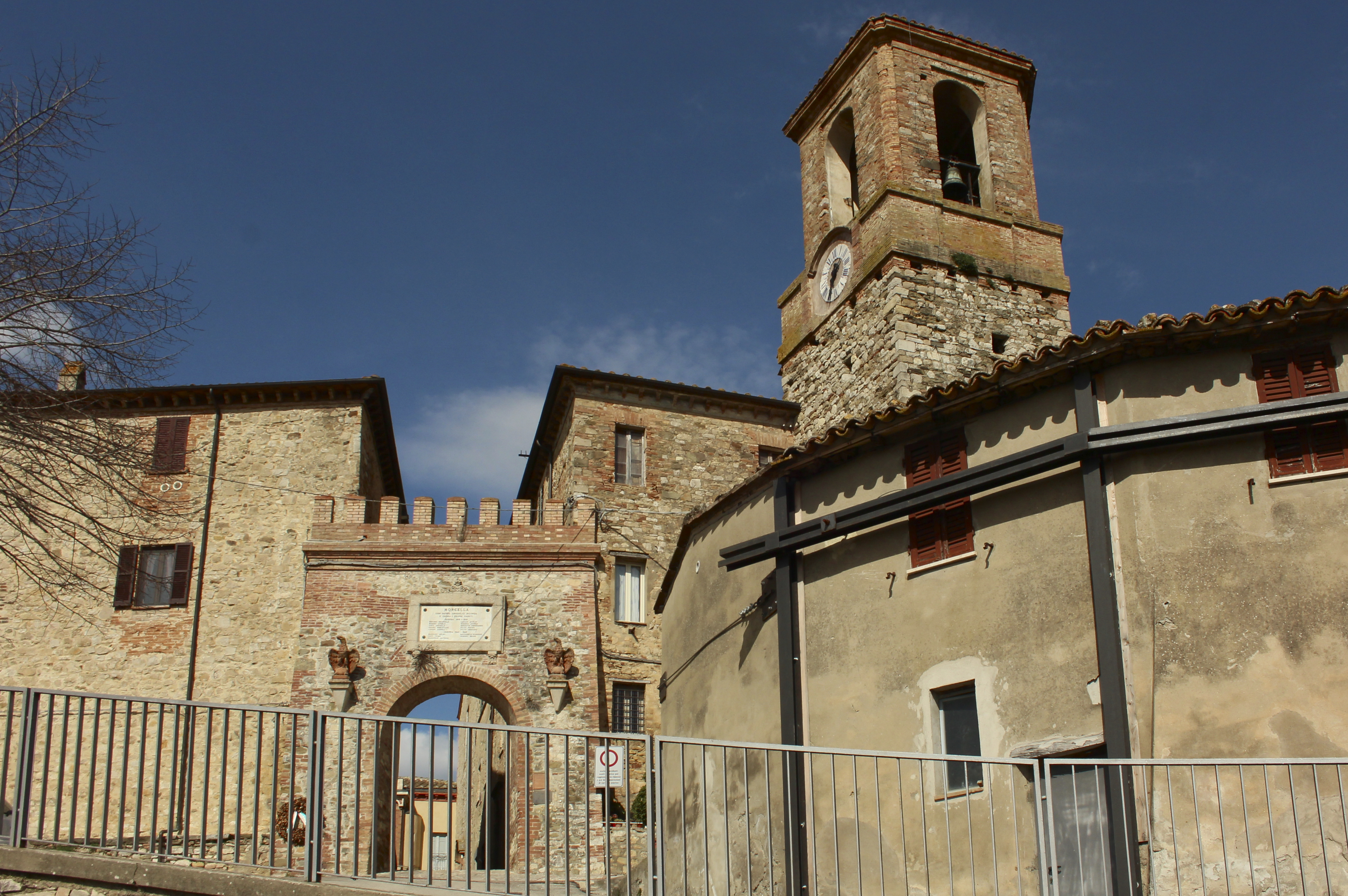 Gate of Morcella, hamlet of Marsciano, Province of Perugia, Umbria, Italy